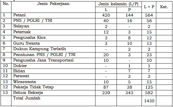 Penduduk Lewoloba Berdasarkan Jenis Pekerjaan